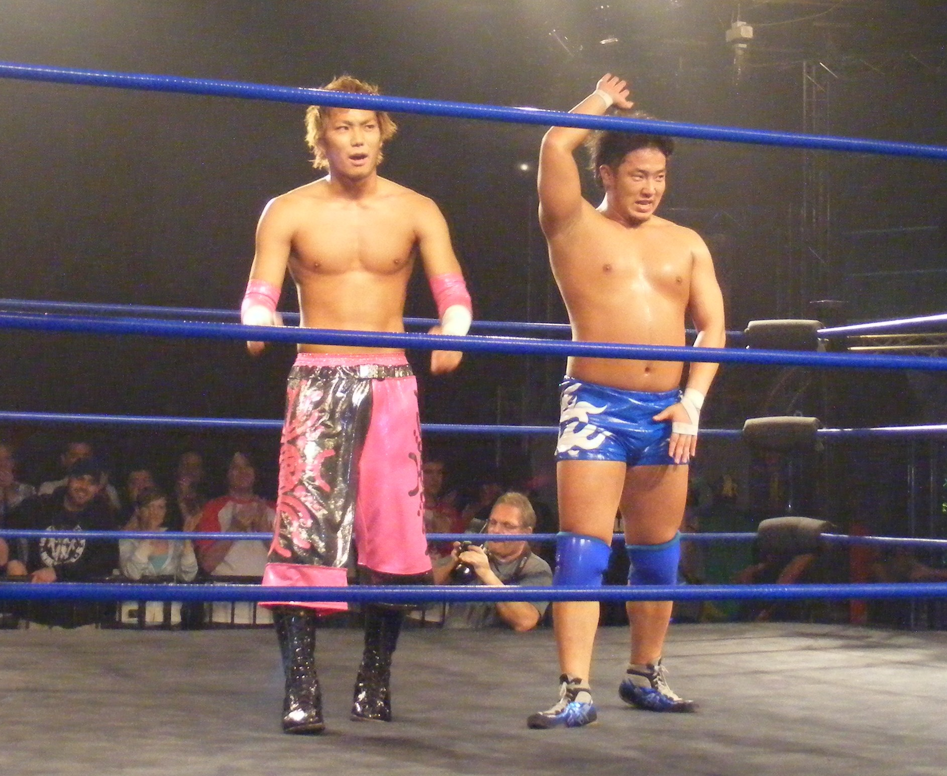 Professional wrestlers Atsushi Kotoge and Daisuke Harada at Chikara King of Trios 2010.